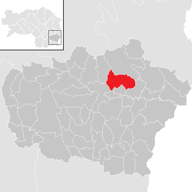 district Feldbach, Styria, Austria